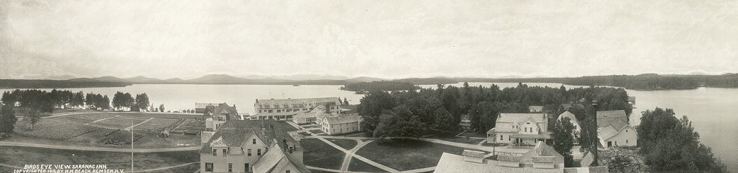 Birds eye view, Saranac Inn